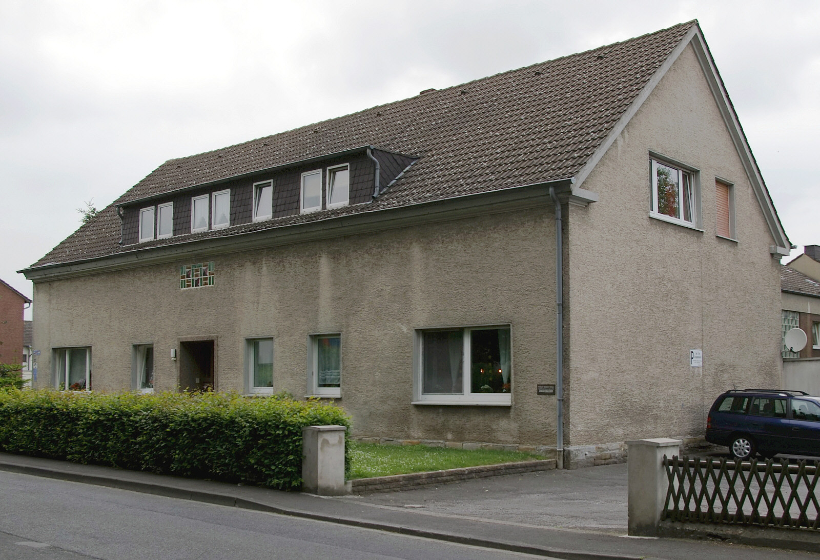 Early Uelzener School, built in 1860 (residential home since about 1965), North Rhine-Westphalia